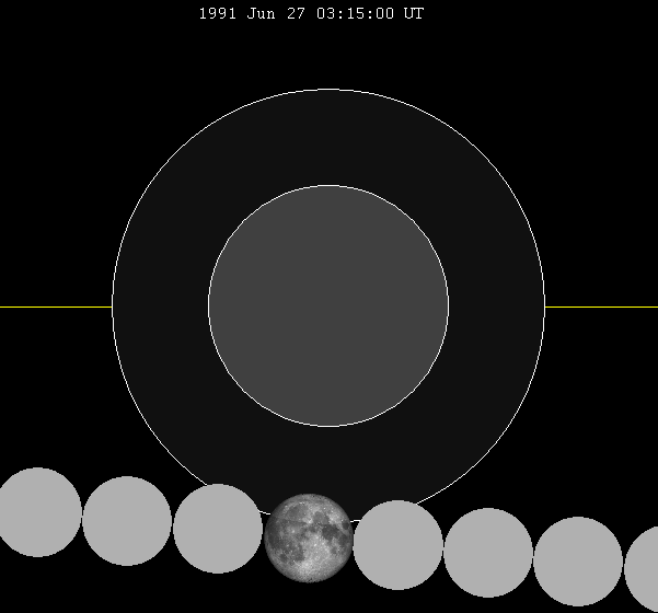 June 1991 lunar eclipse chart of moon's penumbral lunar eclipse path through the earth's shadow. thumb